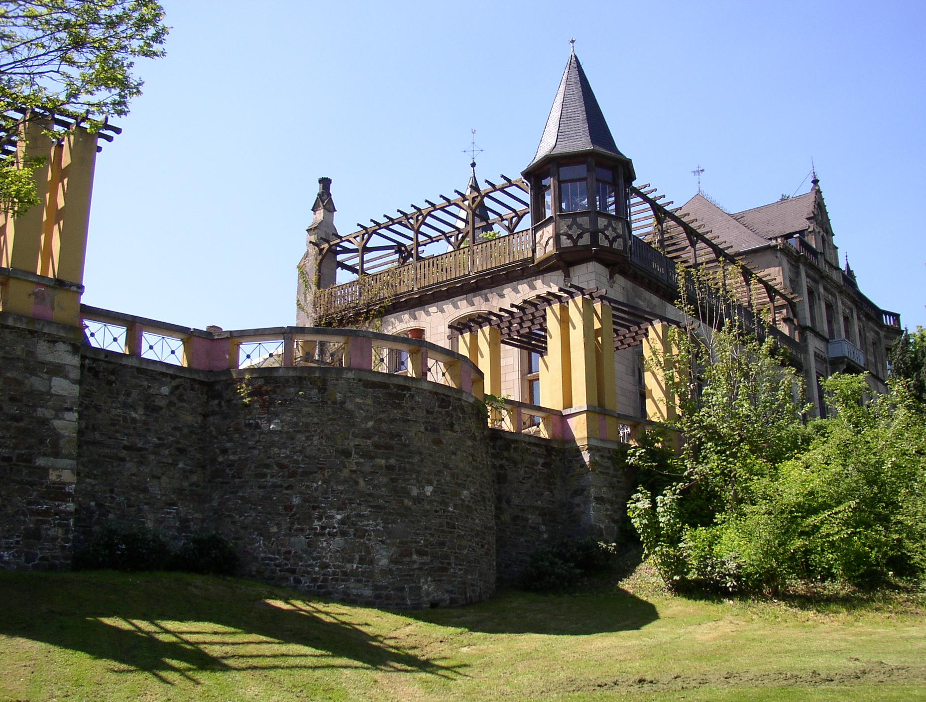 Zehnthof in Sinzig in Rhineland-Palatinate, Germany